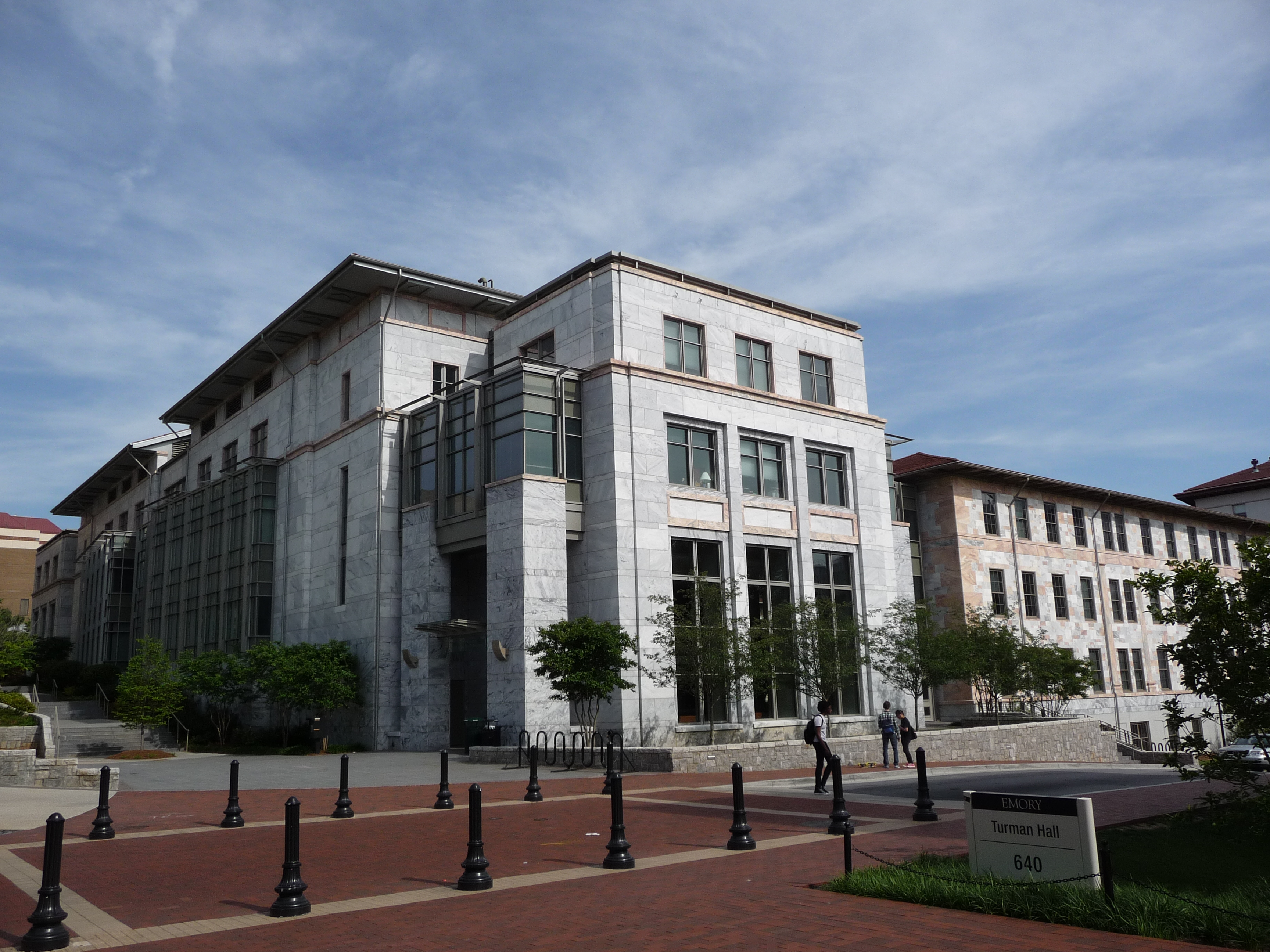 Emory University - Charles and Peggy Evans Anatomy Building